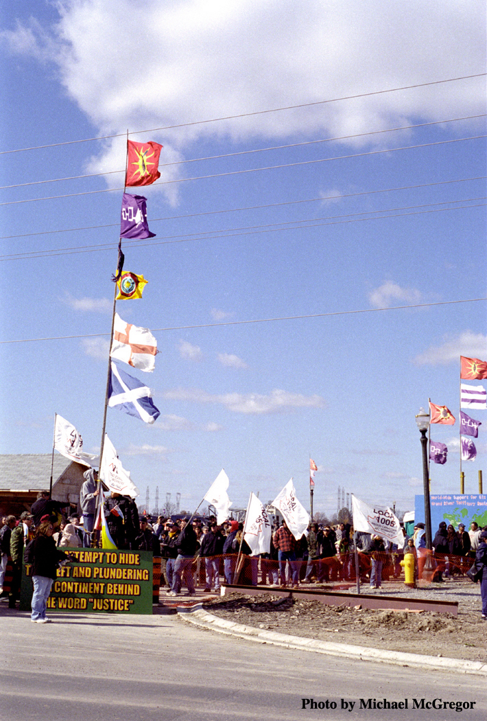 The entrance to the disputed Douglas Creek Estates on the afternoon of October 15 2006. Photo By Michael McGregor